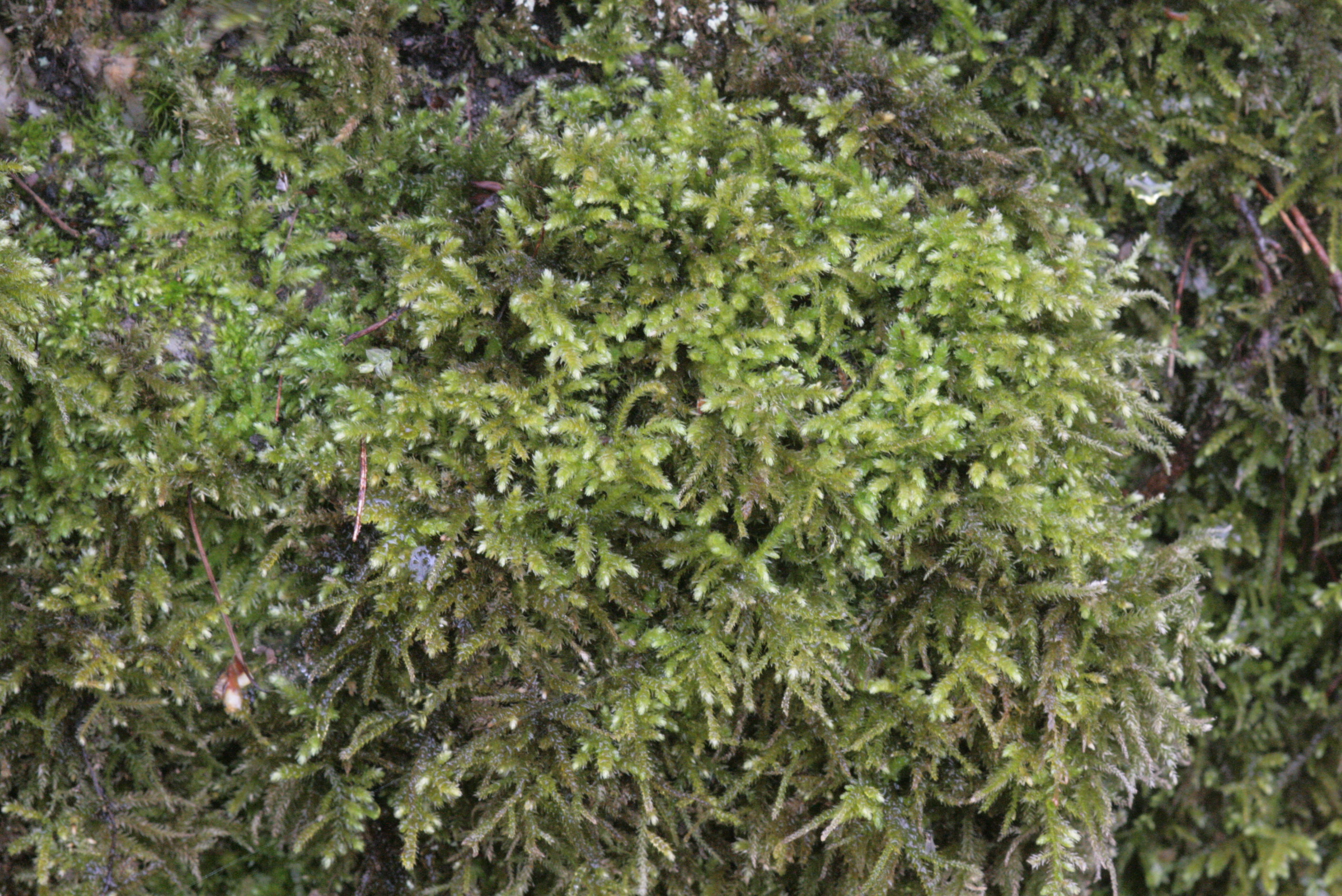 Eurhynchium striatum